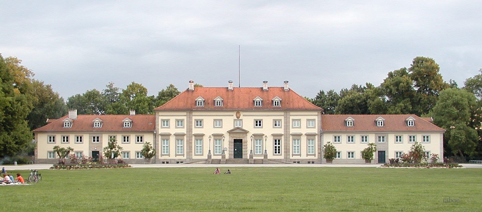 Georgenpalais, now Wilhelm Busch museum in Hanover, Germany